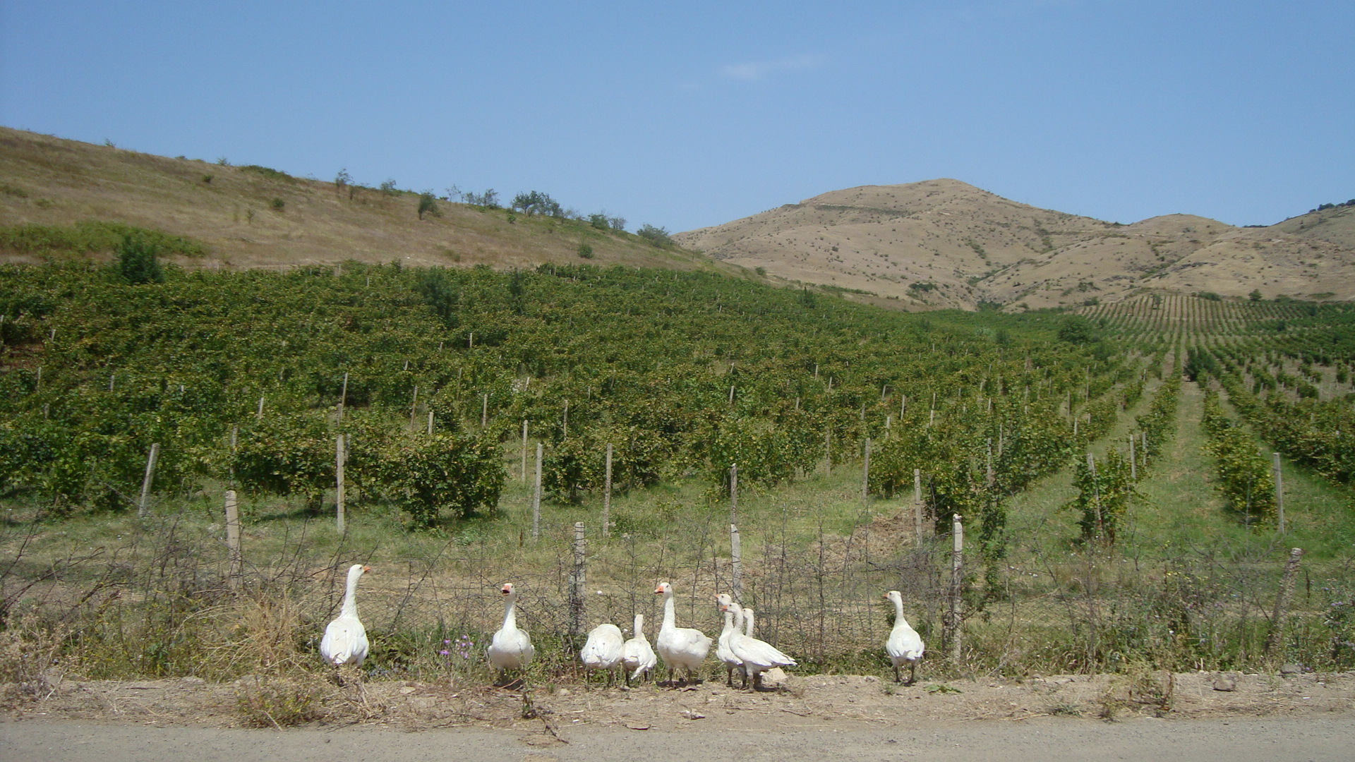 Plants in Martuni district, Republic of Mountainous Karabakh.